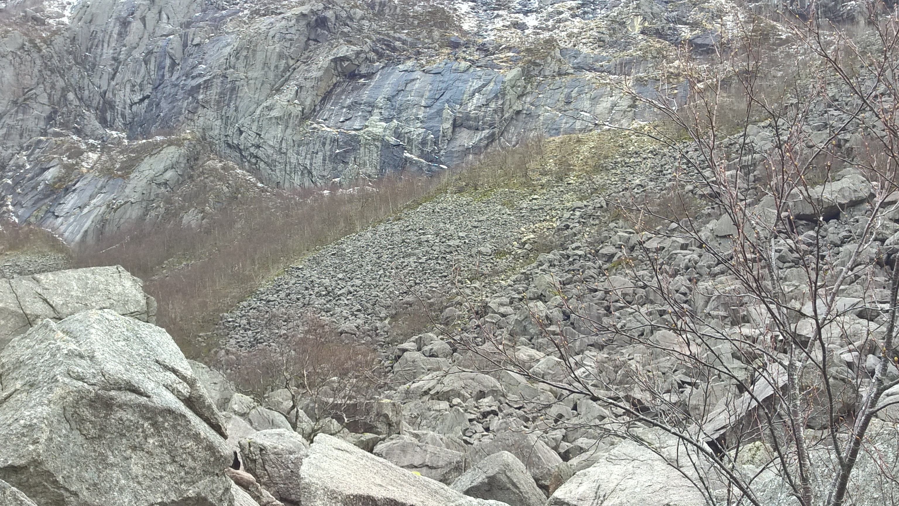 Gloppedalsura